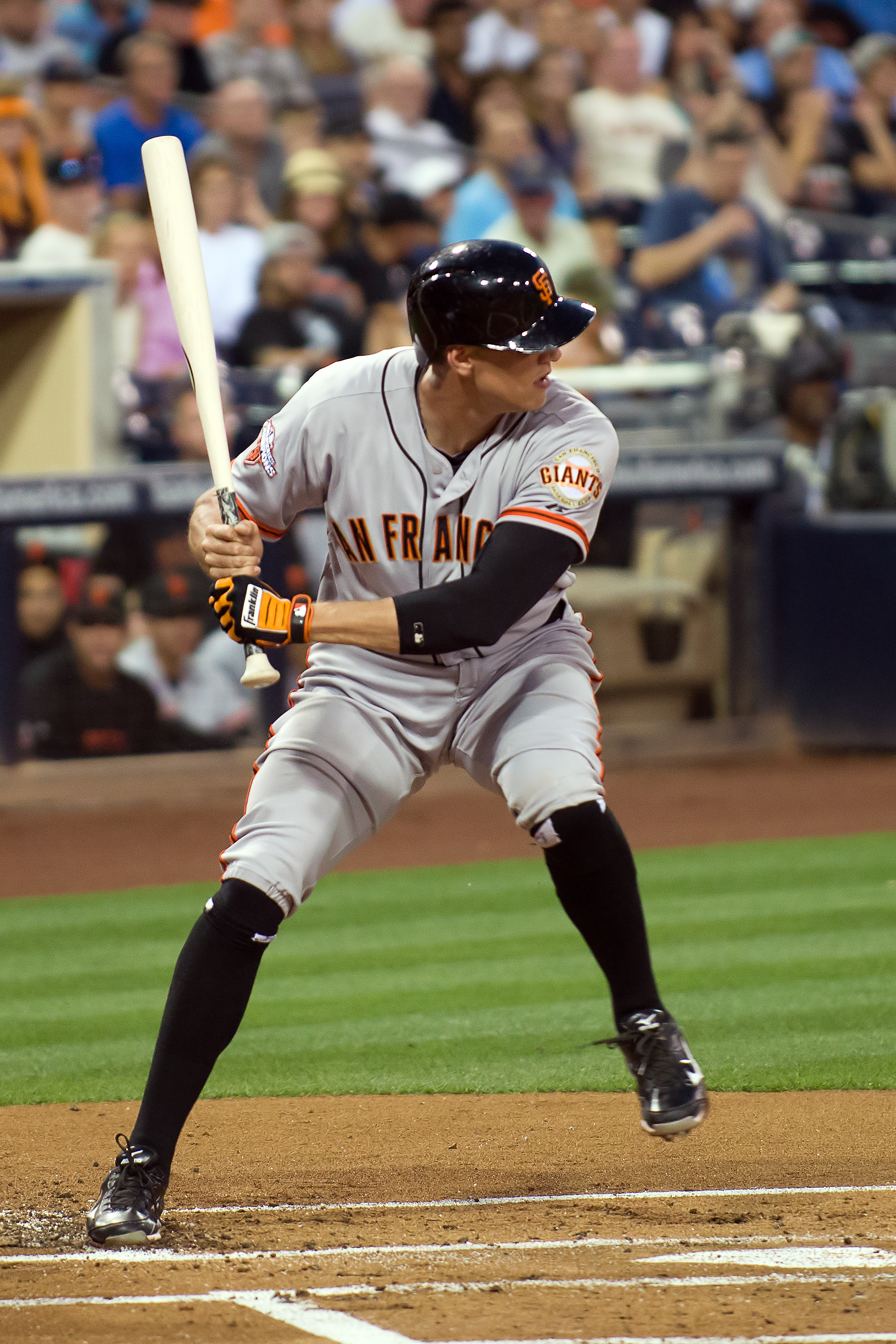 Hunter Pence